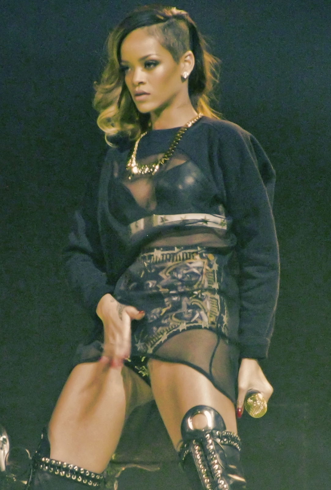 Rihanna performing Diamonds World Tour at the Air Canada Centre, 19 March 2013.